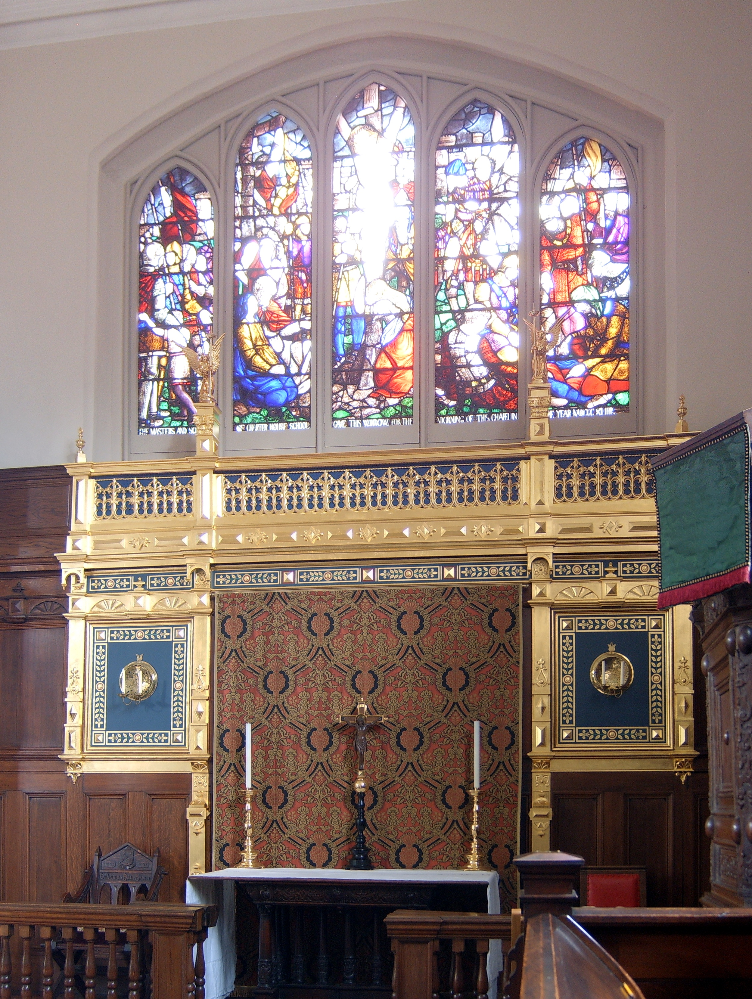 Altar, Chapel of Sutton's Hospital, Charterhouse.